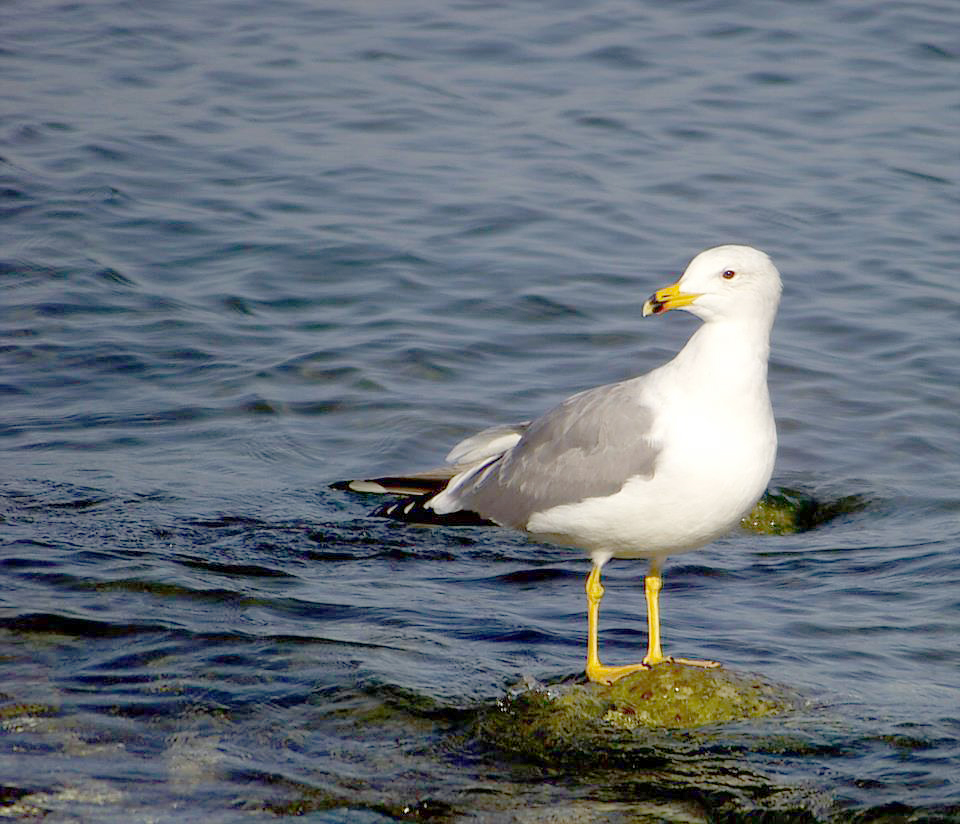 Wildlife and Plants of Israel